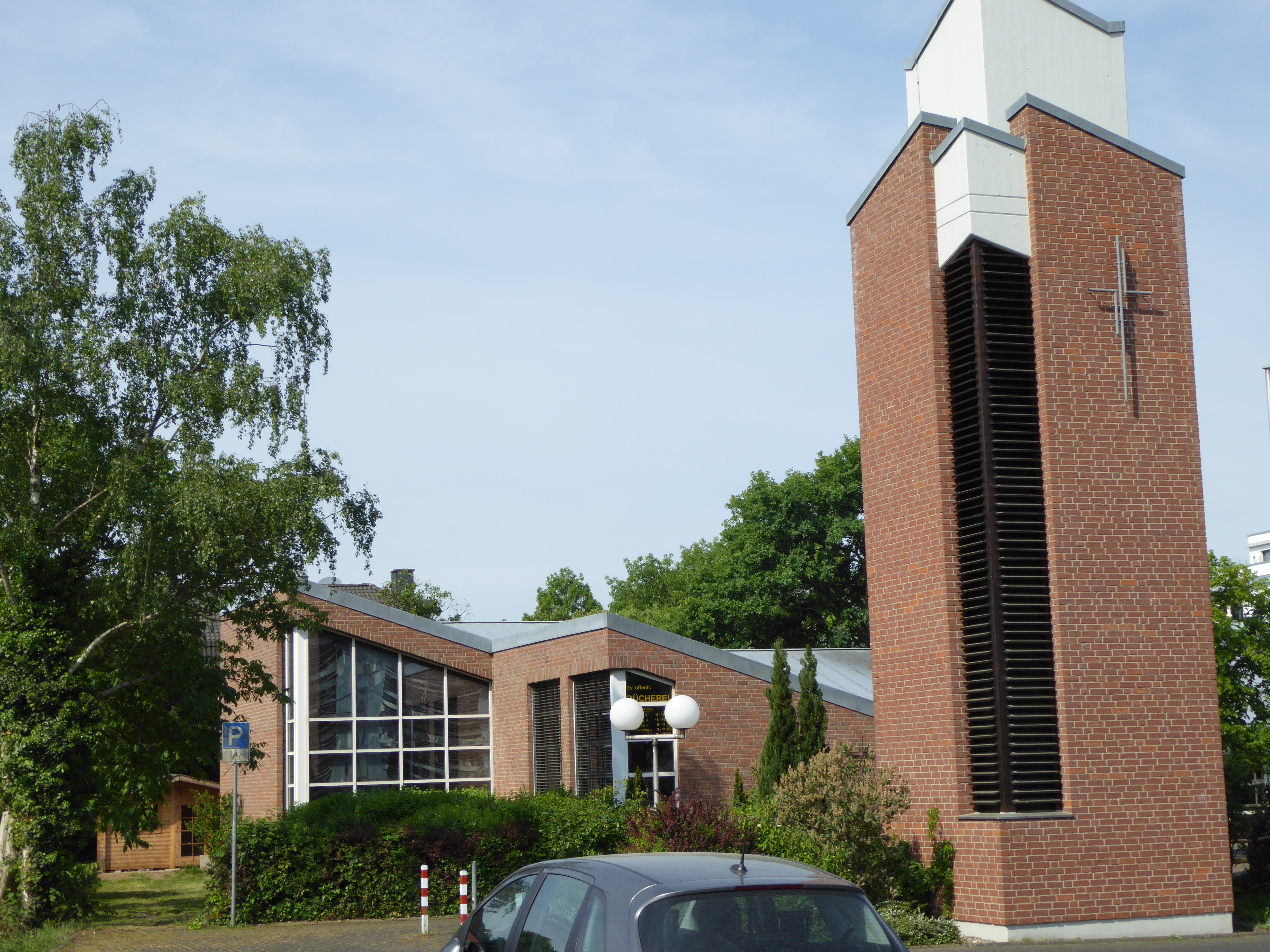 Protestant Christuskirche in Hangelar